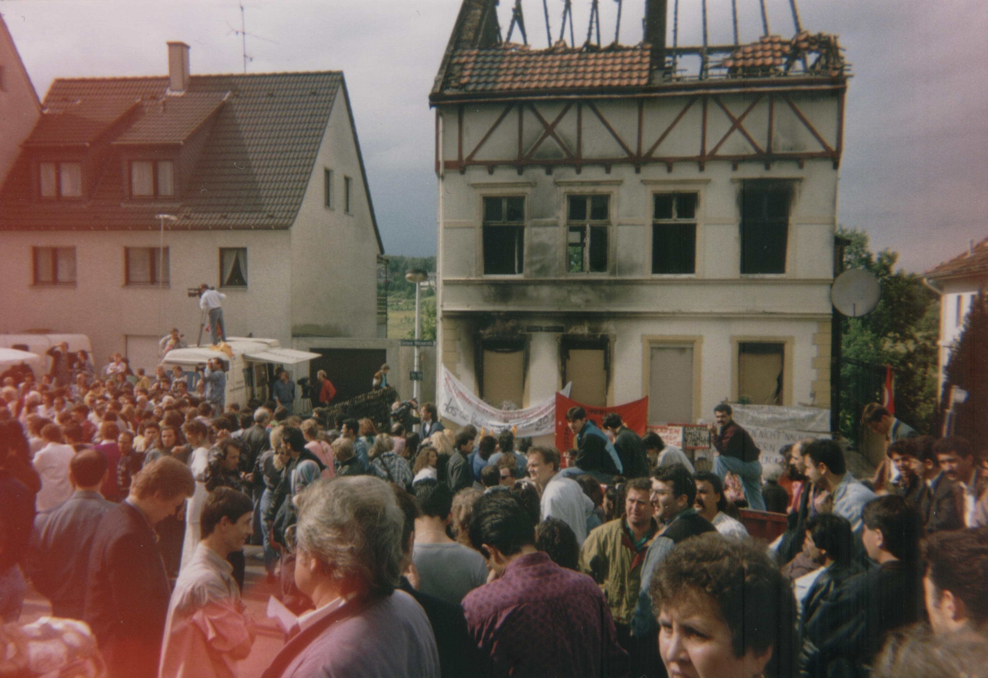 The photographic effect known as light leak, on a photo of a common demonstration of Germans and Turks at the site of the Solingen arson attack of 1993 (May 29, 1993; Untere Wernerstrasse)